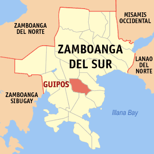 Map of Zamboanga del Sur showing the location of Guipos